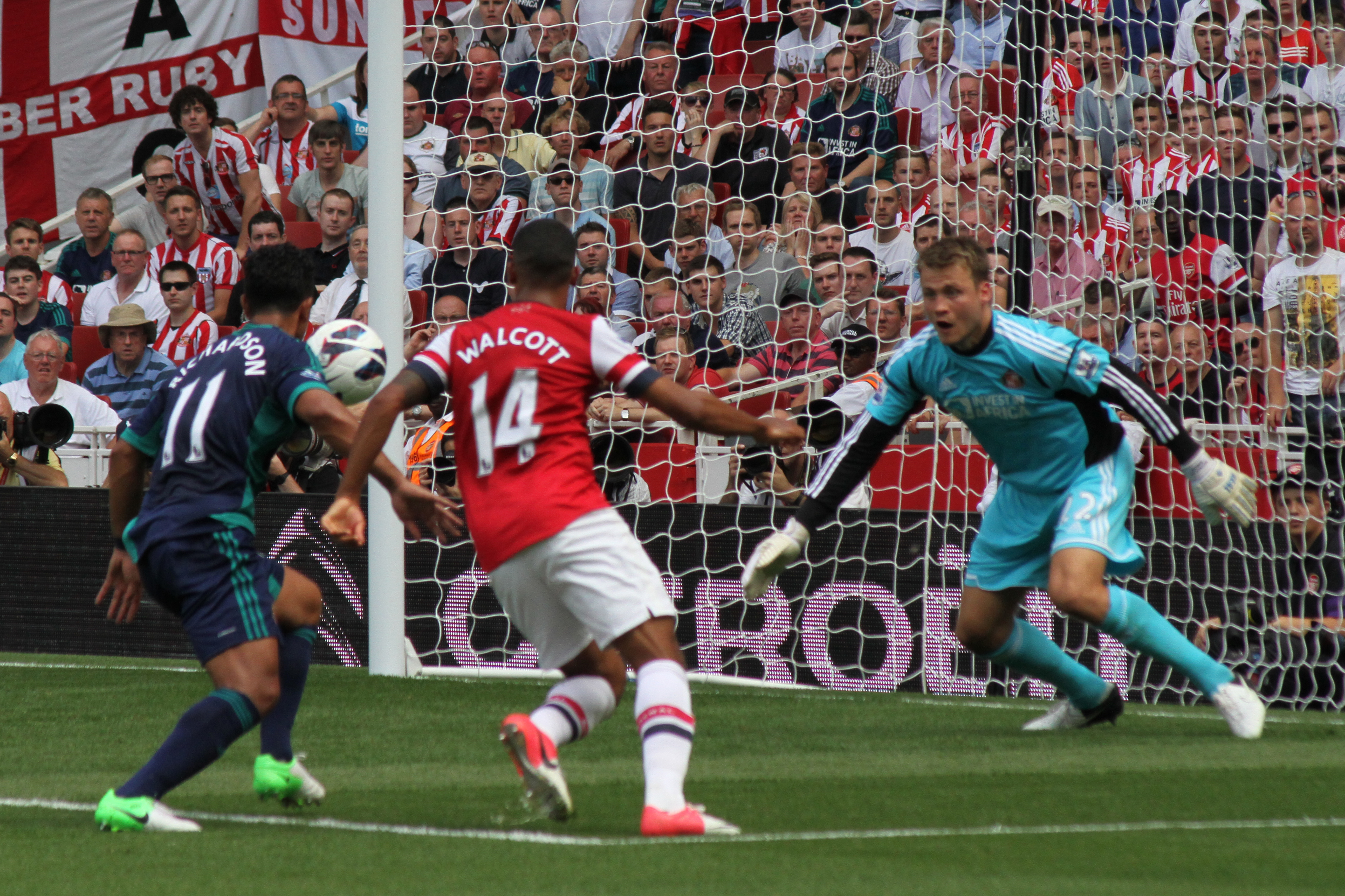 Kieran Richardson, Theo Walcott & Simon Mignolet